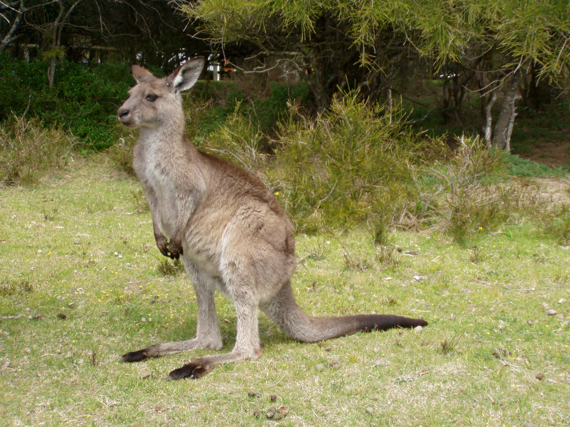 Description: Eastern Grey Kangaroo (Macropus giganteus) Location: Murramarang National Park, South Durras, New South Wales, Australia